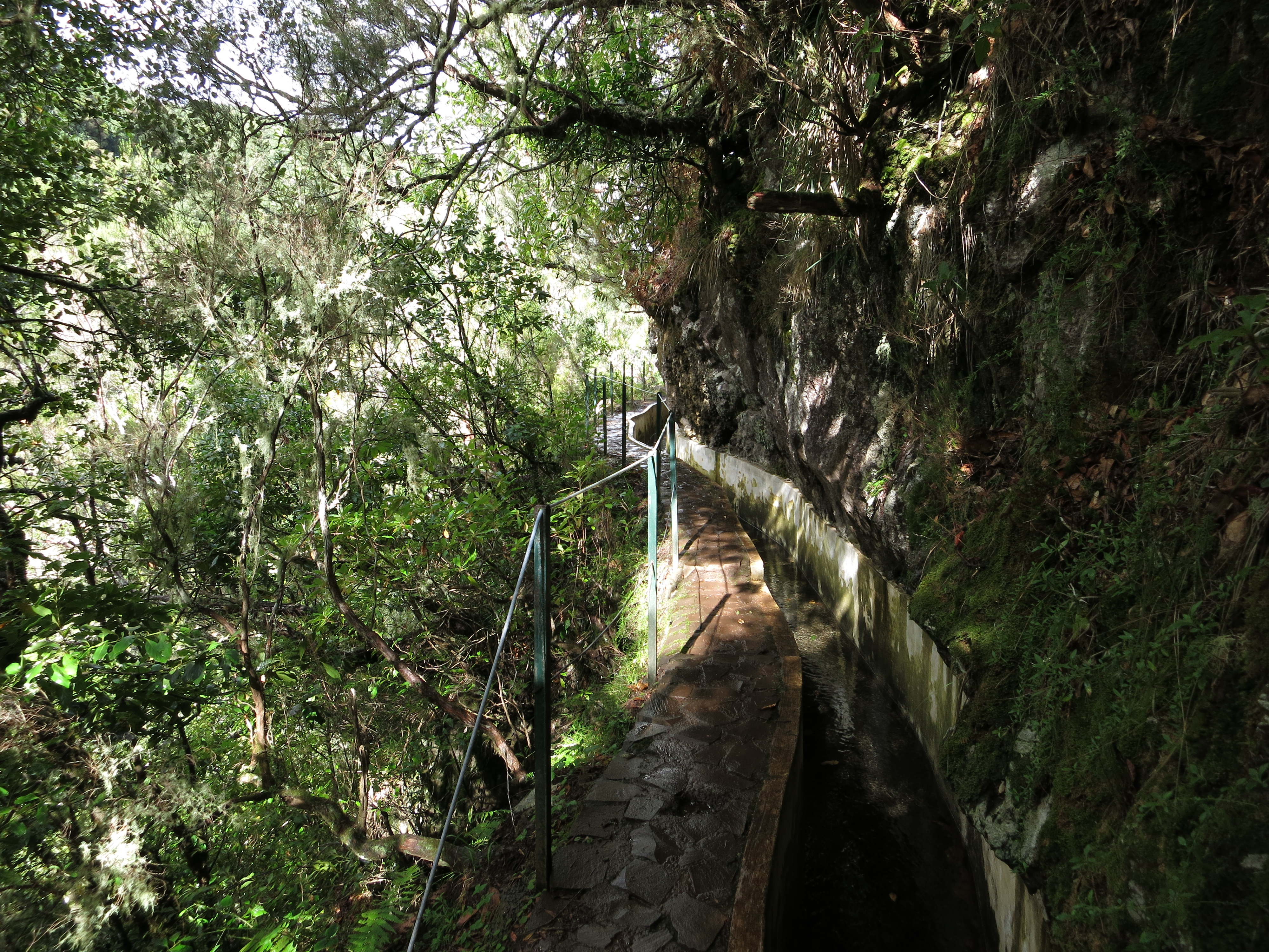 Levada do Furado in Madeira